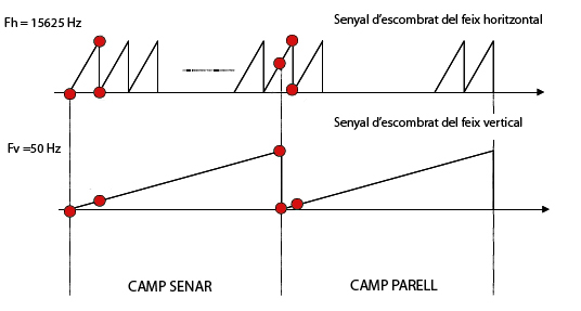 Foto senyals deflexió